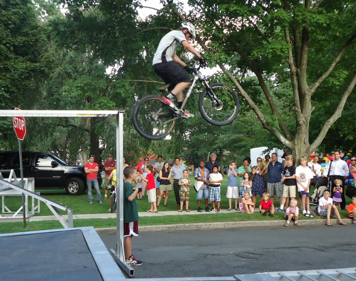 Aerial cyclist Chris Clark jumps his bike for a one-story drop over a child at a performance in Summit, New Jersey, on his mountain bike.